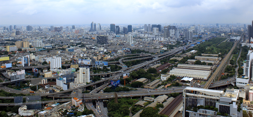 Bangkok skyline view from Byoke Sky Tower, with incoming elevated highways (Don Mueng Toll Way at left, and Sirat Expy towards Suvarnabhumi at right), and Airport Rail Link to Suvarnabhumi at right.